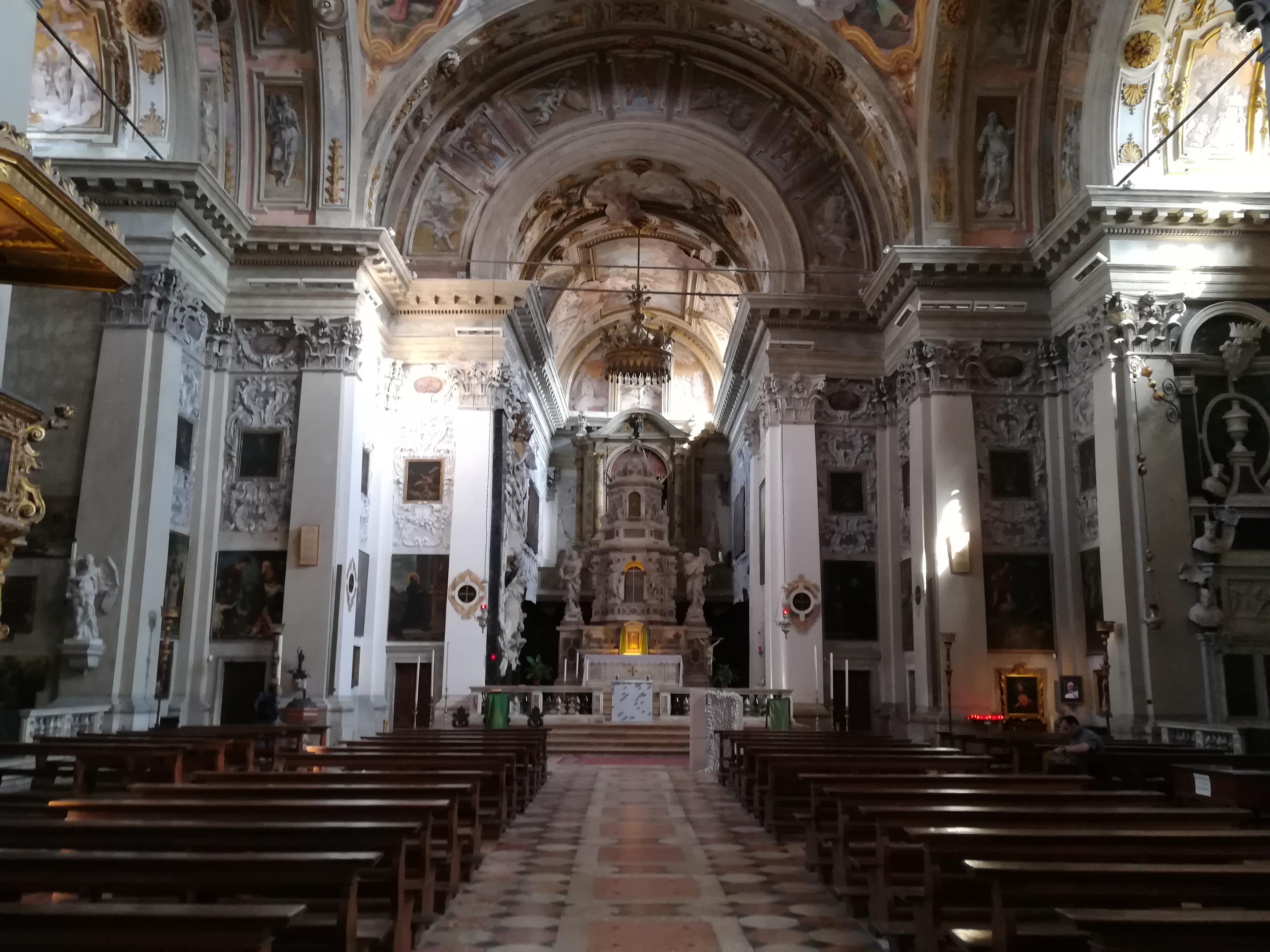 Interior of San Nicola da Tolentino (Venice)